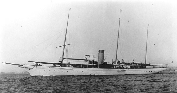 Kanawha II (Steam Yacht, 1899) Underway, prior to her World War I Navy service. She was acquired by the Navy and commissioned on 28 April 1917 as USS Kanawha II (SP-130). Renamed Piqua on 14 March 1918, she was returned to her owner on 1 July 1919.